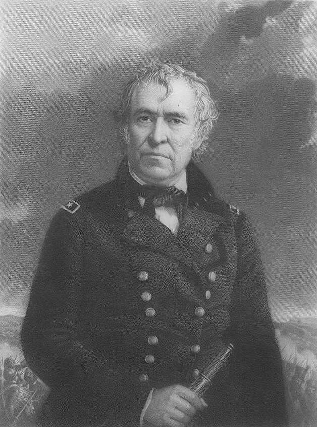 Zachary Taylor, half-length portrait, facing slightly left, in uniform, holding telescope. Engraving by Alexander Hay Ritchie.